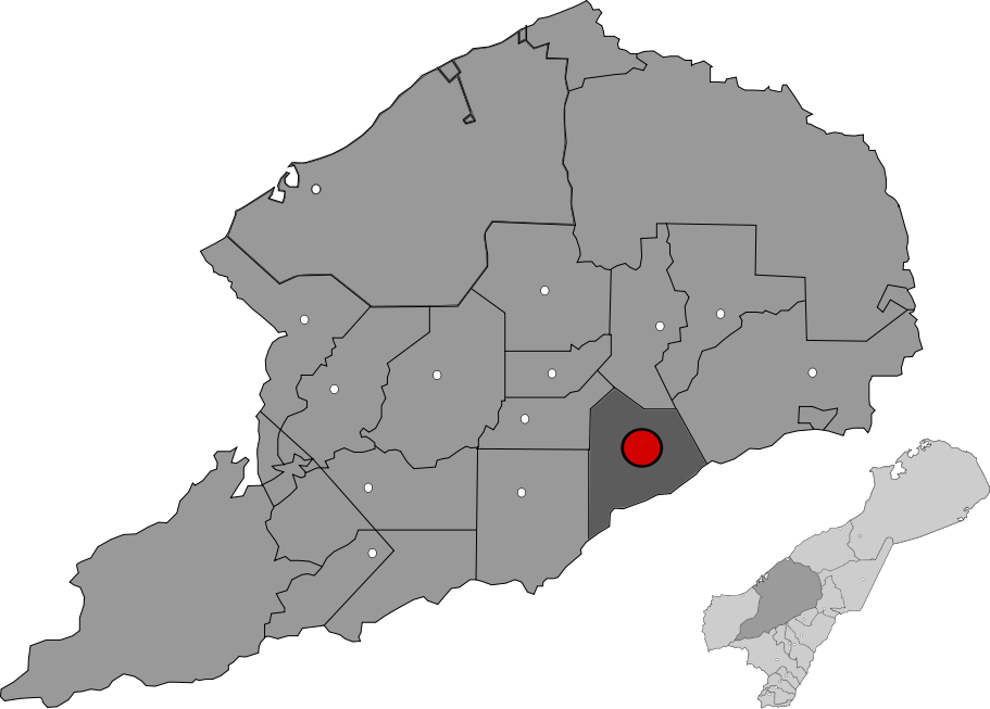 Cotoprix Corregimiento